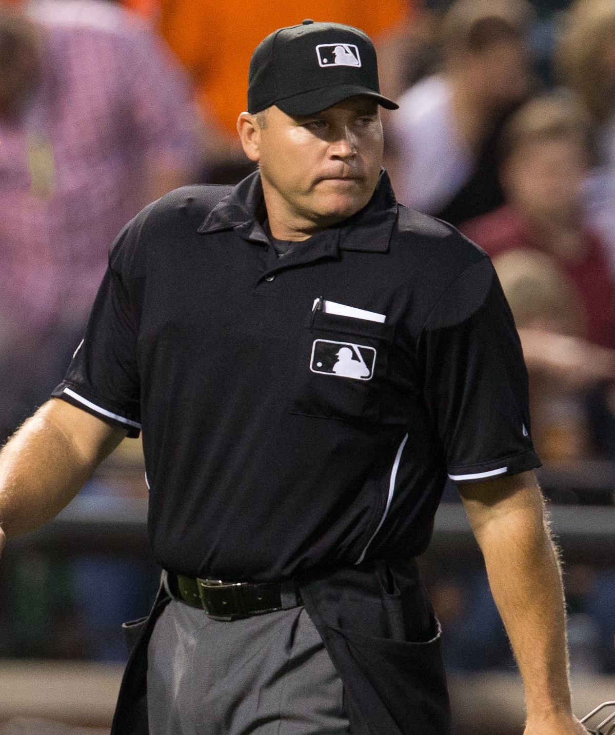 MLB umpire Mark Carlson – Tampa Bay Rays at Baltimore Orioles April 17, 2013